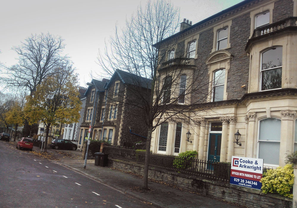 View looking west along The Walk, Roath (was Tredegarville), Cardiff, with 'the Old Convent' in the foreground.